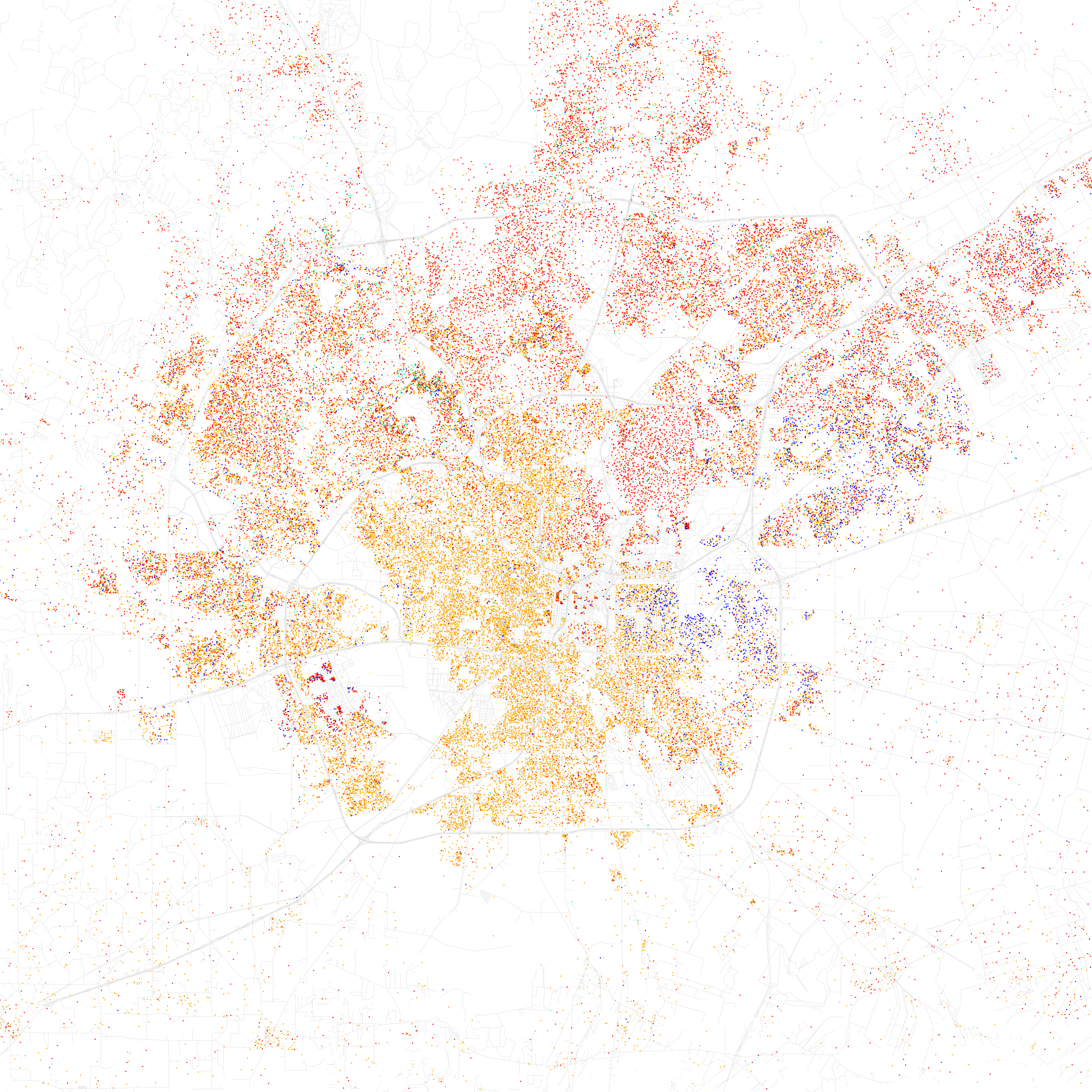 Maps of racial and ethnic divisions in US cities, inspired by Bill Rankin's map of Chicago, updated for Census 2010. Red is White, Blue is Black, Green is Asian, Orange is Hispanic, Yellow is Other, and each dot is 25 residents. Data from Census 2010. Base map © OpenStreetMap, CC-BY-SA